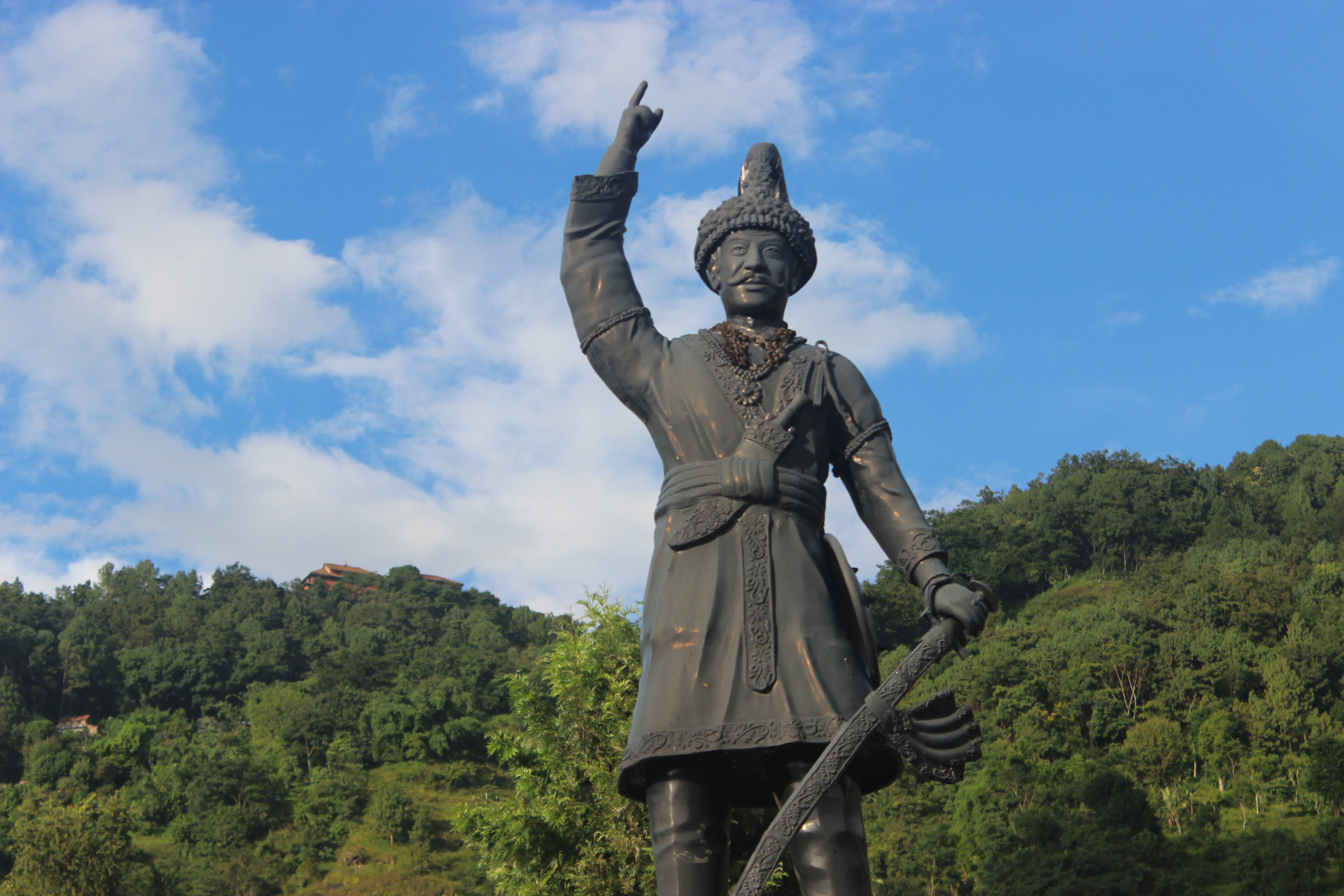 Unification of Greater Nepal was started from Gorkha Kingdom.